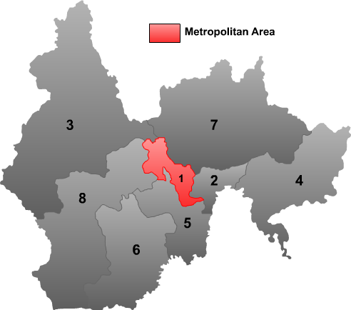 Map of Yanbian prefecture in Jilin province